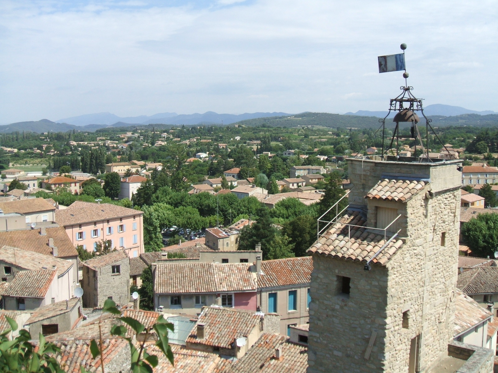 Malaucène (département of Vaucluse, Provence-Alpes-Côte-d'Azur région, France) : the belfry (1482-1532) viewed from the castle site, and panoramic view of the northern part of the village and surroundings.